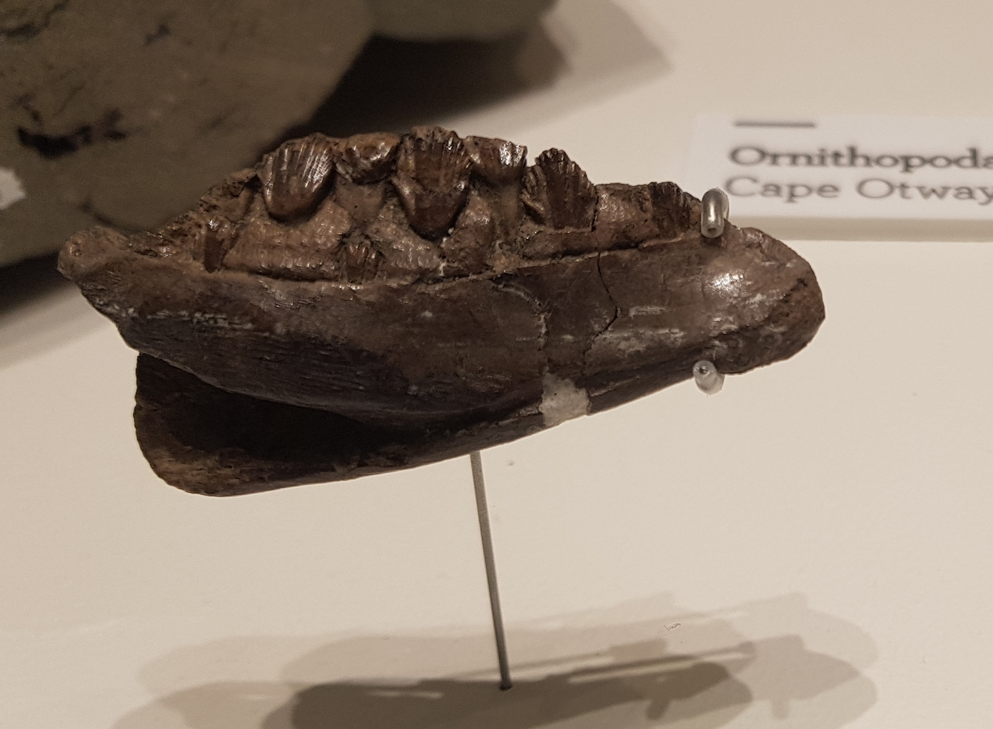 Jaw of Qantassaurus intrepidus at the Melbourne Museum